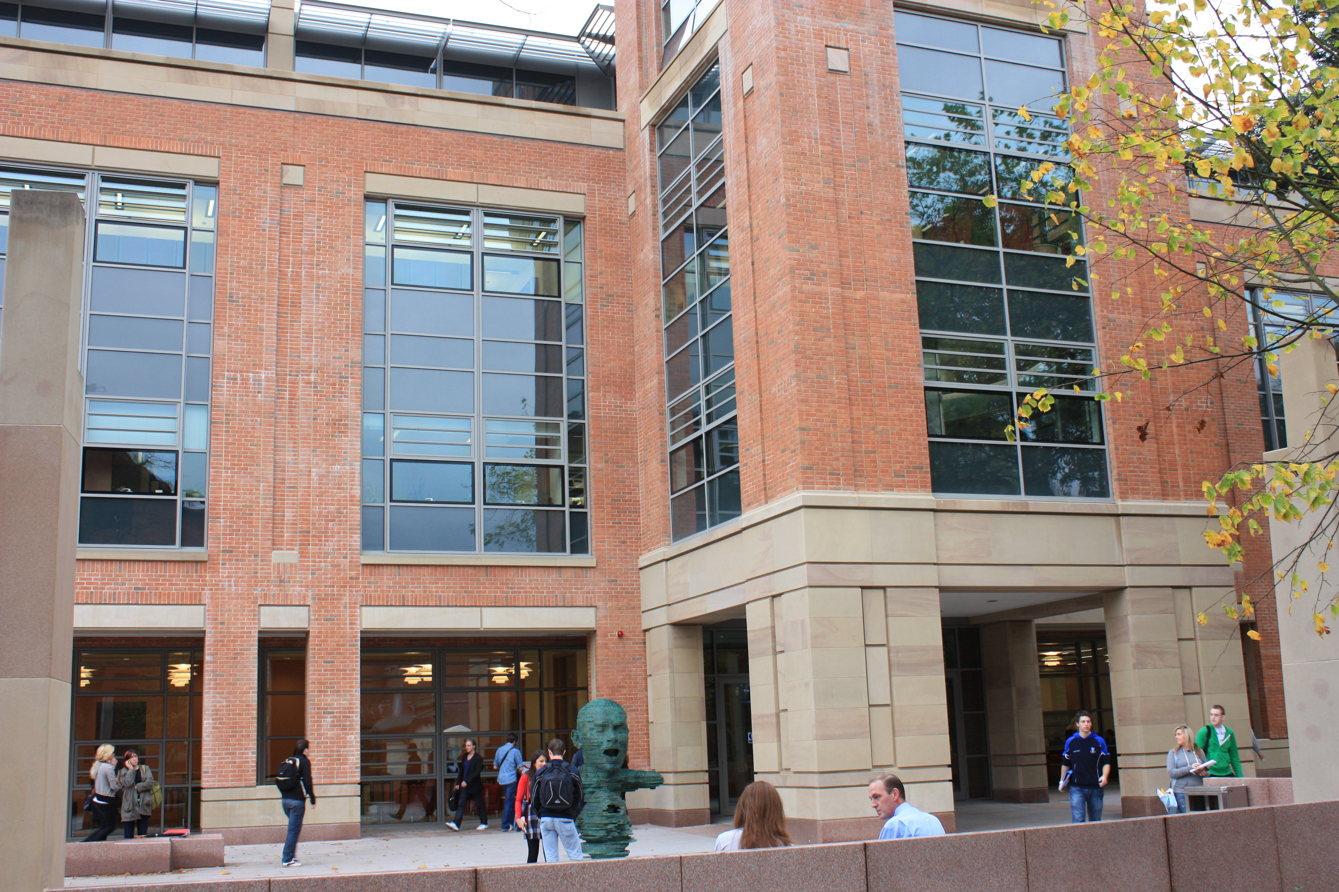 The Library at Queen's, Queen's University Belfast, College Park, Belfast, Northern Ireland, October 2009